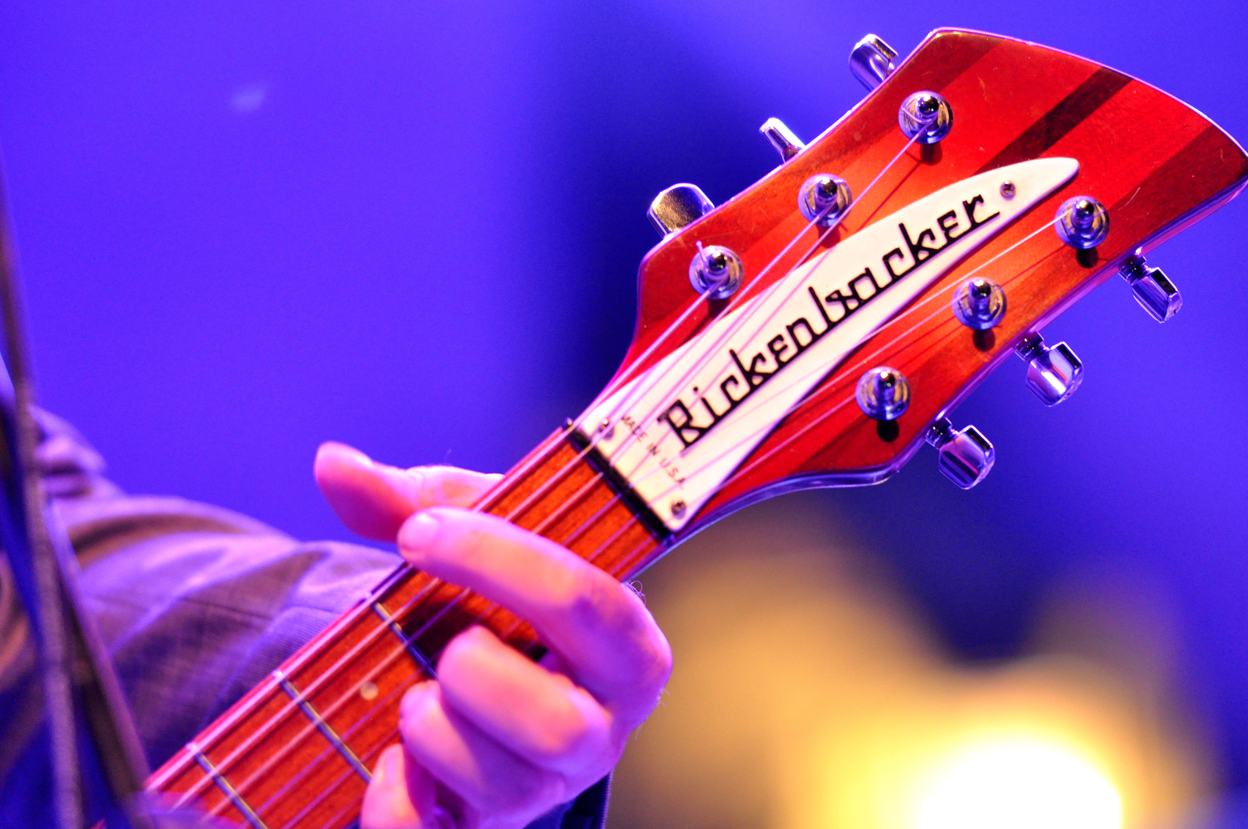 Fools Garden (DEU) appearance at the 2016 blacksheep festival at Bonfeld castle, Bad Rappenau, Baden-Wuerttemberg, Germany Festivalsommer This photo was created with the support of donations to Wikimedia Deutschland in the context of the CPB project "Festival Summer".